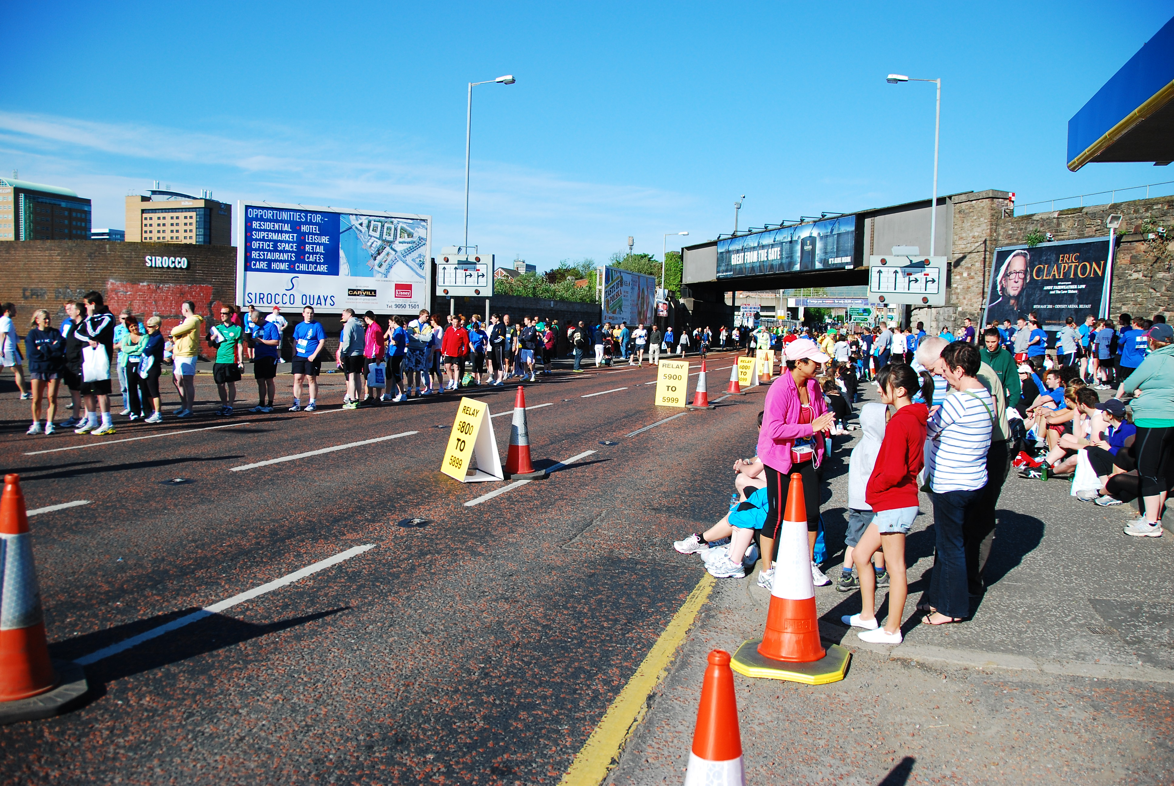 Belfast Marathon 2011